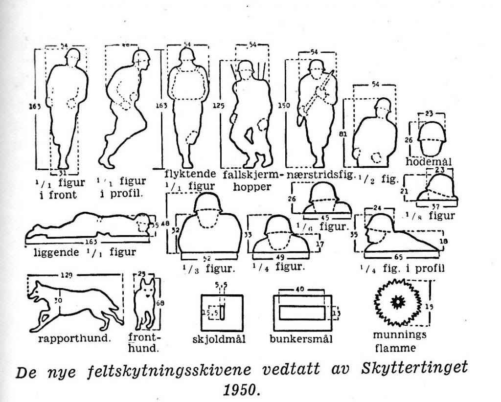 DFS field shooting targets in 1950, from Frantz Rosenberg's book "Skytterliv : skytterens abc", published in Oslo by Damm, 1952» (dimensions in cm)